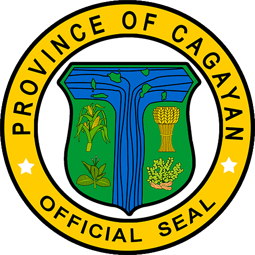 Seal of Cagayan. Original version first published in 1917.